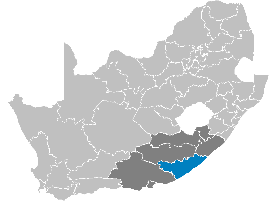 Map showing the Amatole District Municipality higlighted within Eastern Cape.